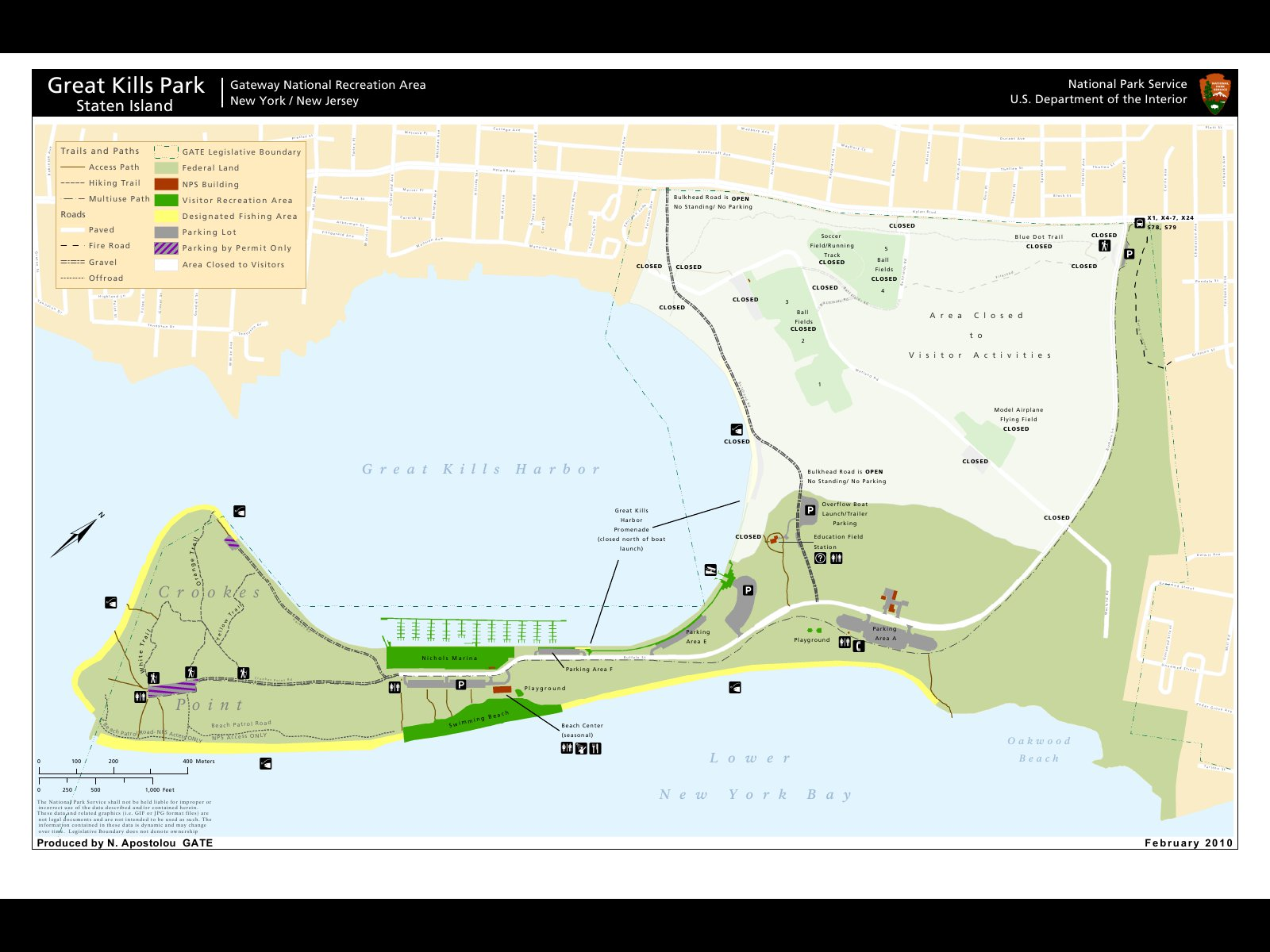 Map from the National Park Service (NPS) from the Great Kills Park showing the closed areas where Radium from the former landfill has been found.